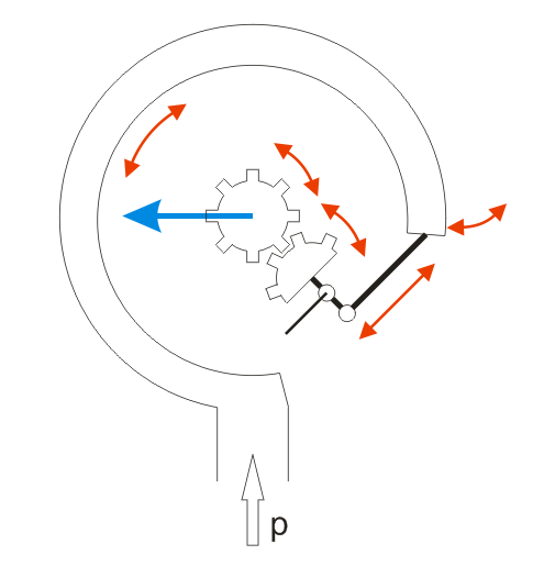 Manometer